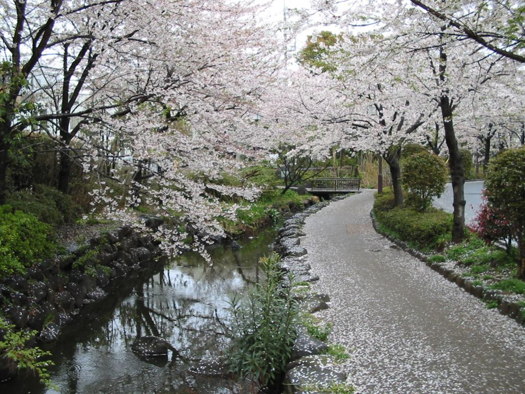 Ichinoe-Sakaigawa Shinsui Park in April.